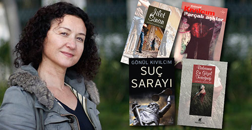 Gonul Kivilcim